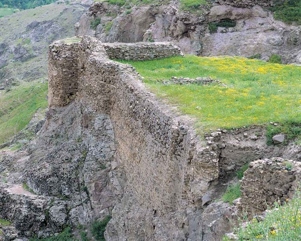 Lambsar fortress, Alamut, Iran